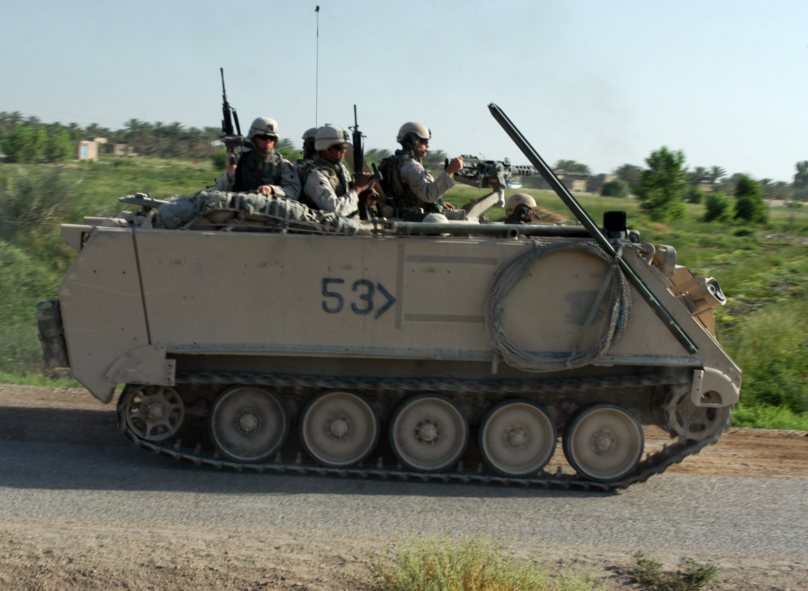 US Army (USA) Soldiers assigned to C Company, 1st Engineers, 1st Infantry Division Brigade Combat Team 1 (BCT-1), travel aboard a USA M113 Armored Personnel Carrier (APC), as they depart Forward Operating Base (FOB) Junction City in Ar Ramadi, Iraq, to conduct a raid on a suspected weapons cache. USA Soldiers assigned to the 1st Infantry Division are attached with the US Marine Corps (USMC) 1st Marine Division, and are engaged in Security and Stabilization Operations (SASO) in the Al Anbar Province of Iraq, in support of Operation IRAQI FREEDOM.